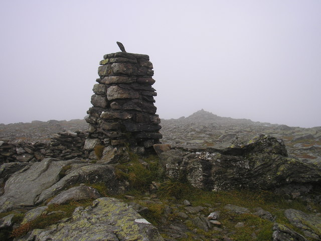 On the Summit, Ben Narnain